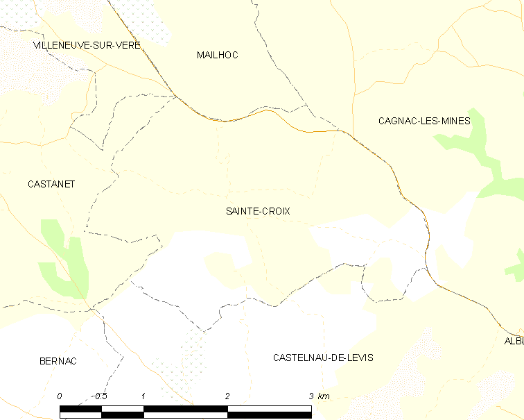 Map of French municipality Sainte-Croix